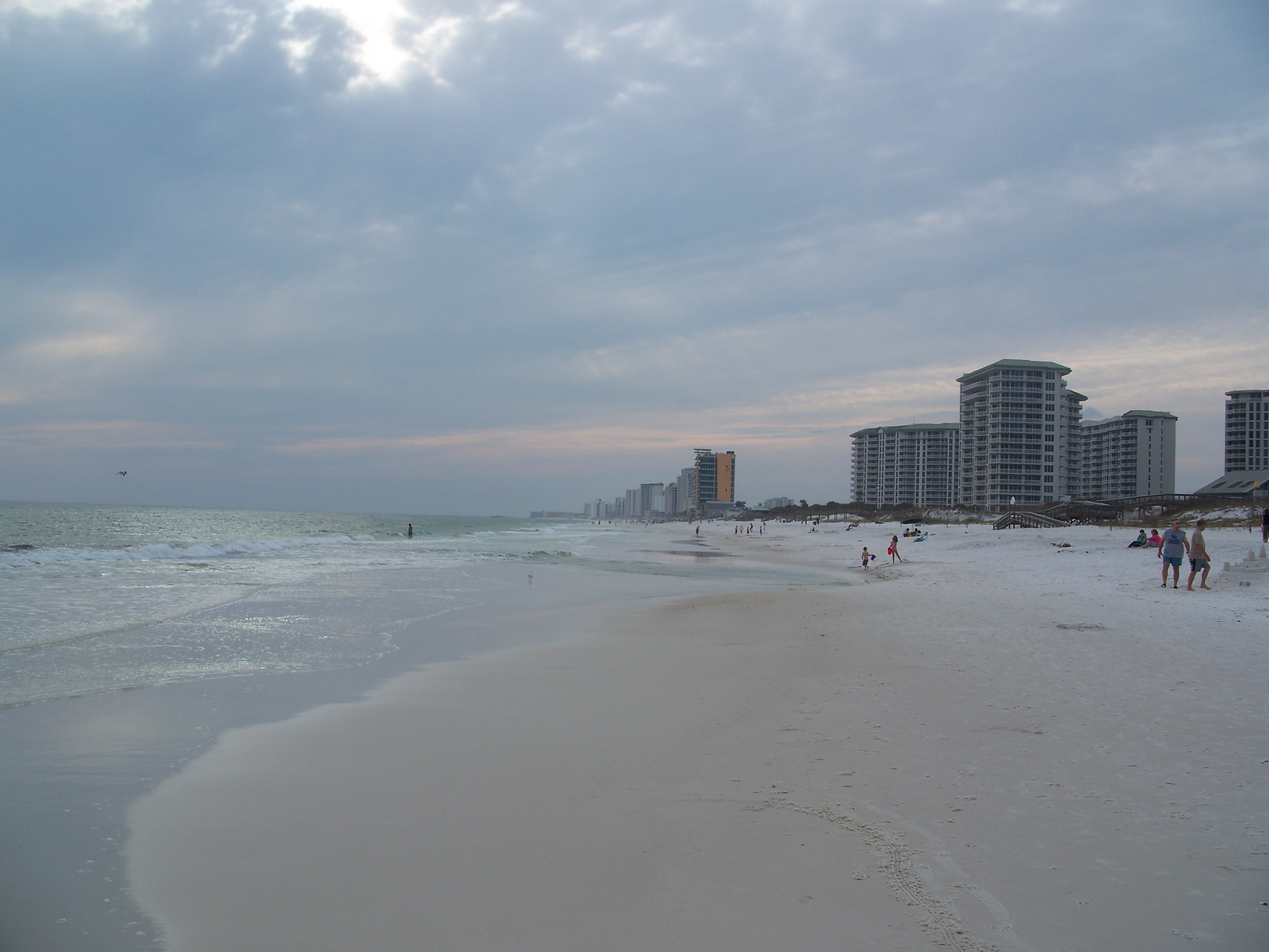 The beach at Henderson Beach State Park.